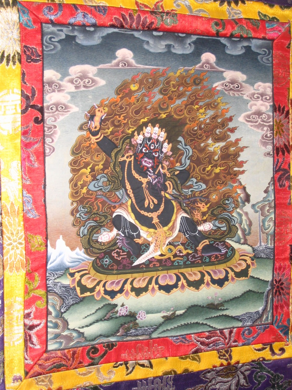 Picture of an original tibetan thangka owned by me